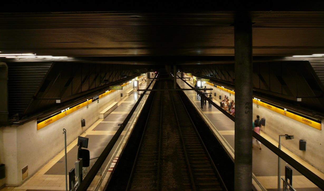 Barcelona metro, Ciutadella-Vila Olímpica station